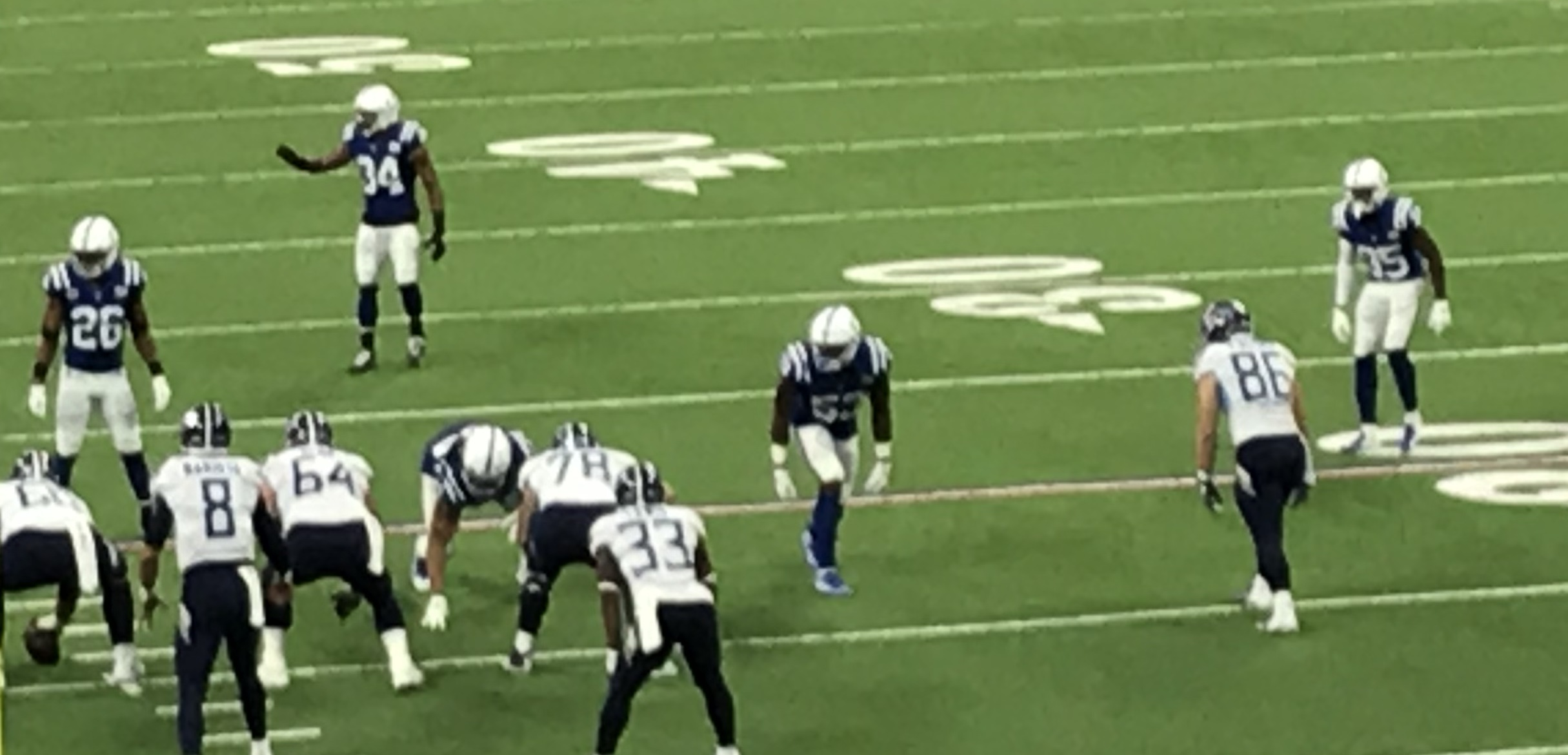 Several Indianapolis Colts defenders in a game against the Titans in November 2018